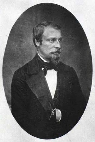 Peter Jacob Frederik (Friederich) Bauditz (1817-1864), Danish army officer